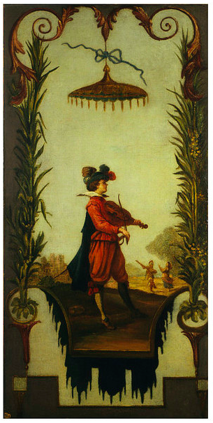 Young Man Playing the Violin Object: Oil painting Place of origin: England (painted) Date: 1742 (painted) Artist/Maker: Clermont, Andien de (artist) Materials and Techniques: oil on canvas Museum number: P.14-1985